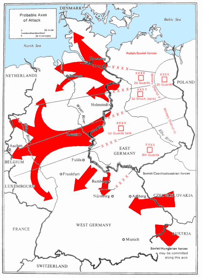 Probable Axes of Attack of Warsaw Pact. Taken from Graham H. Turbiville, "Invasion in Europe--A Scenario," Army, November 1976, p. 19.